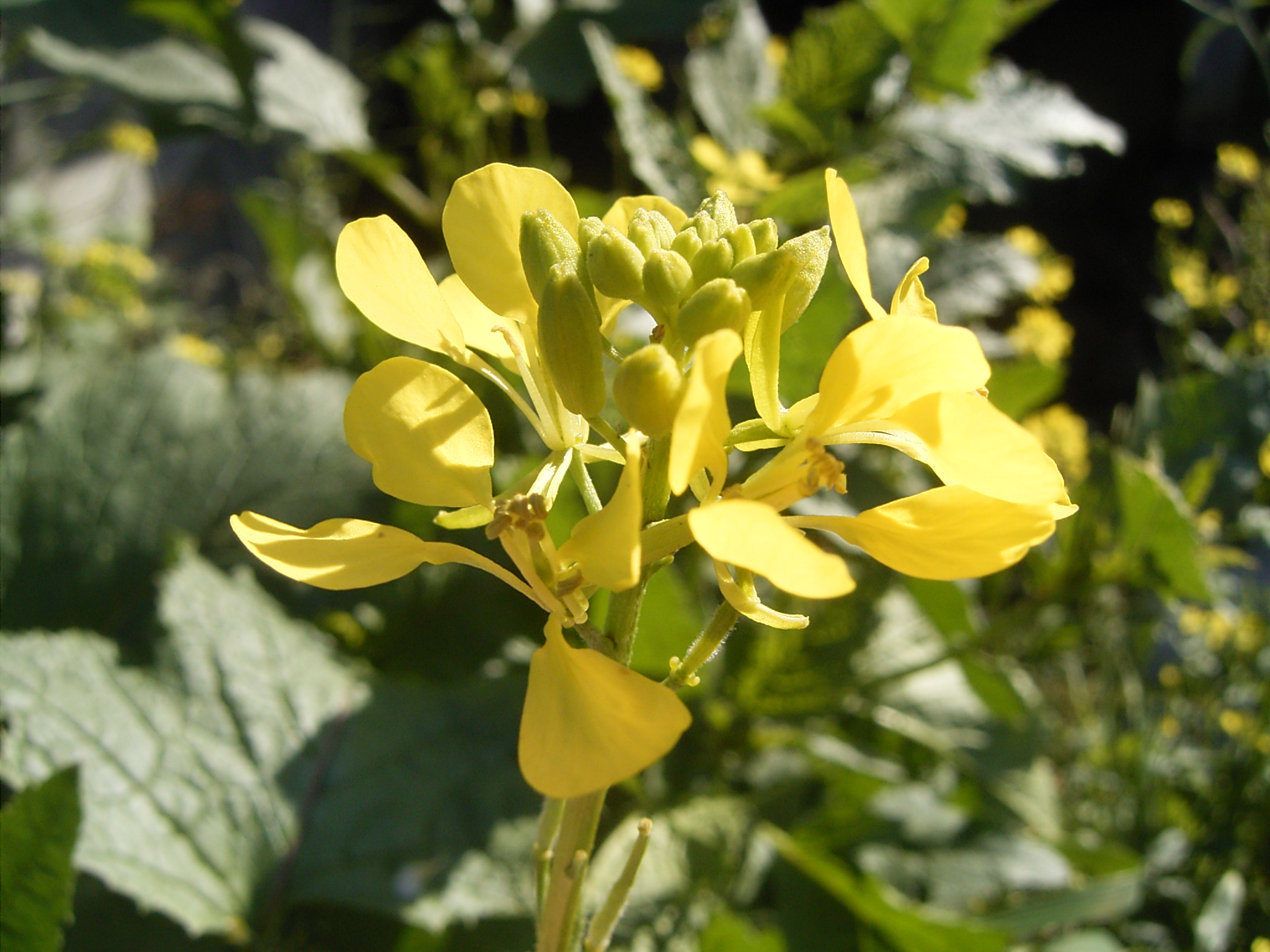 Deze foto toont de bloemen van Herik. Ik nam de foto langs een sloot in Mariahoeve in Den Haag. This photo shows the flowers of sinapis arvensis. I took the photo in The Hague, Netherlands.